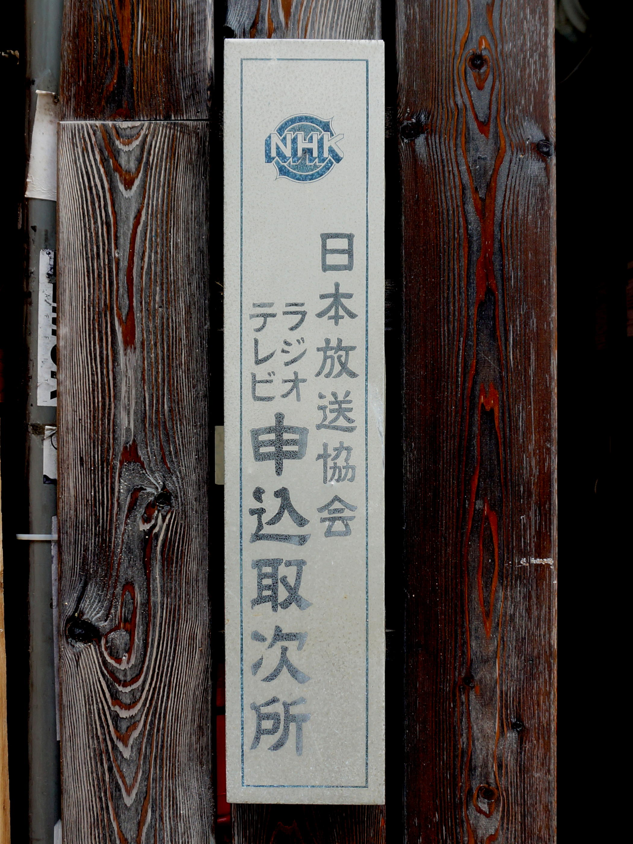 A radio and television application distributor plate of Nippon Hōsō Kyōkai on Dabei Road, Shilin District, Taipei City.